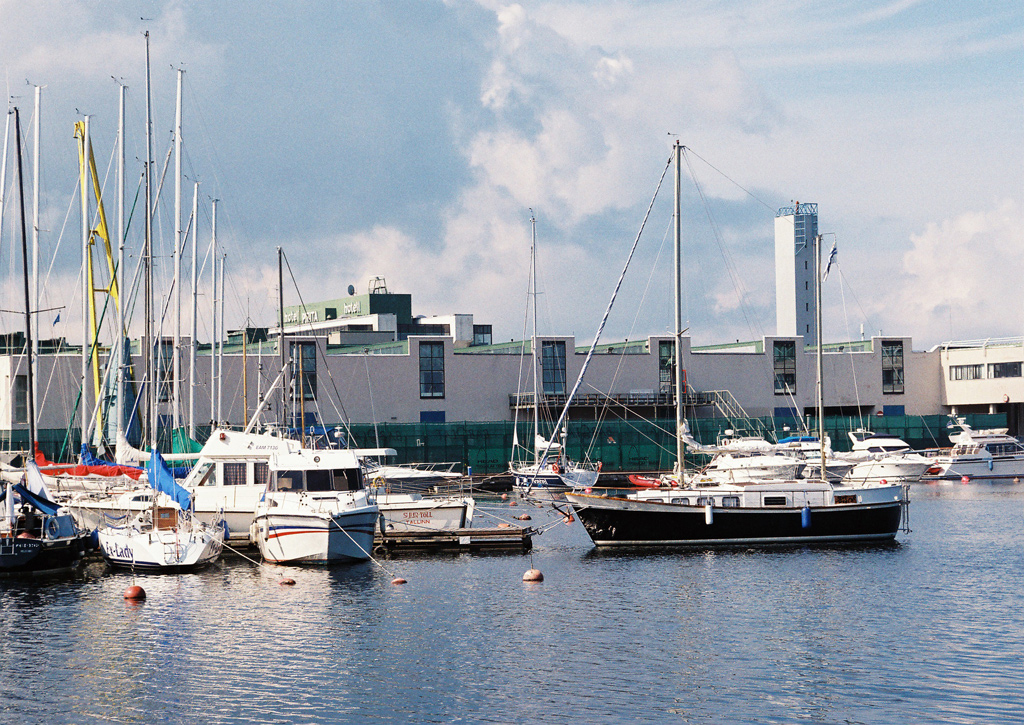 Tallinn, Pirita yachts